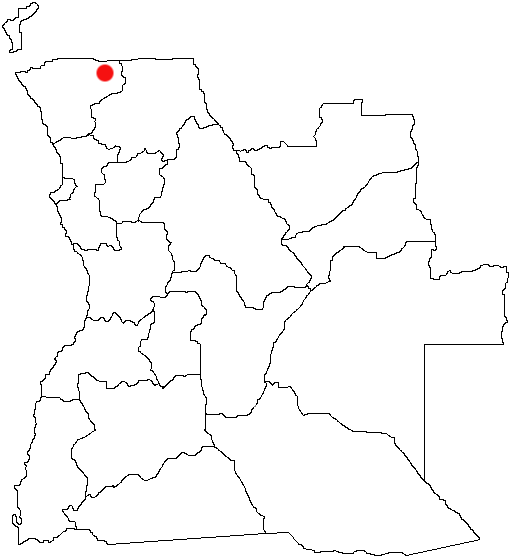 M'banza Kongo, Angola Location Map; created with the GIMP. Made by User:Acntx.